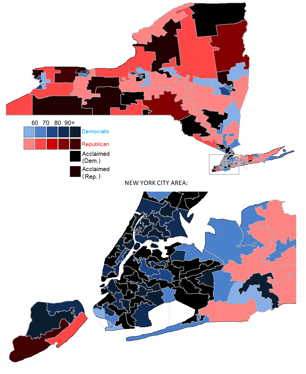 Results of the 2018 New York Assembly election. Candidates can run on multiple parties in New York; the cumulative votes each candidate received for all parties is noted, but only the main party is used for shading. Fred Thiele of the 1st district is primarily associated with the Independence Party, but received the majority of his votes as a Democrat, and is thus denoted here.